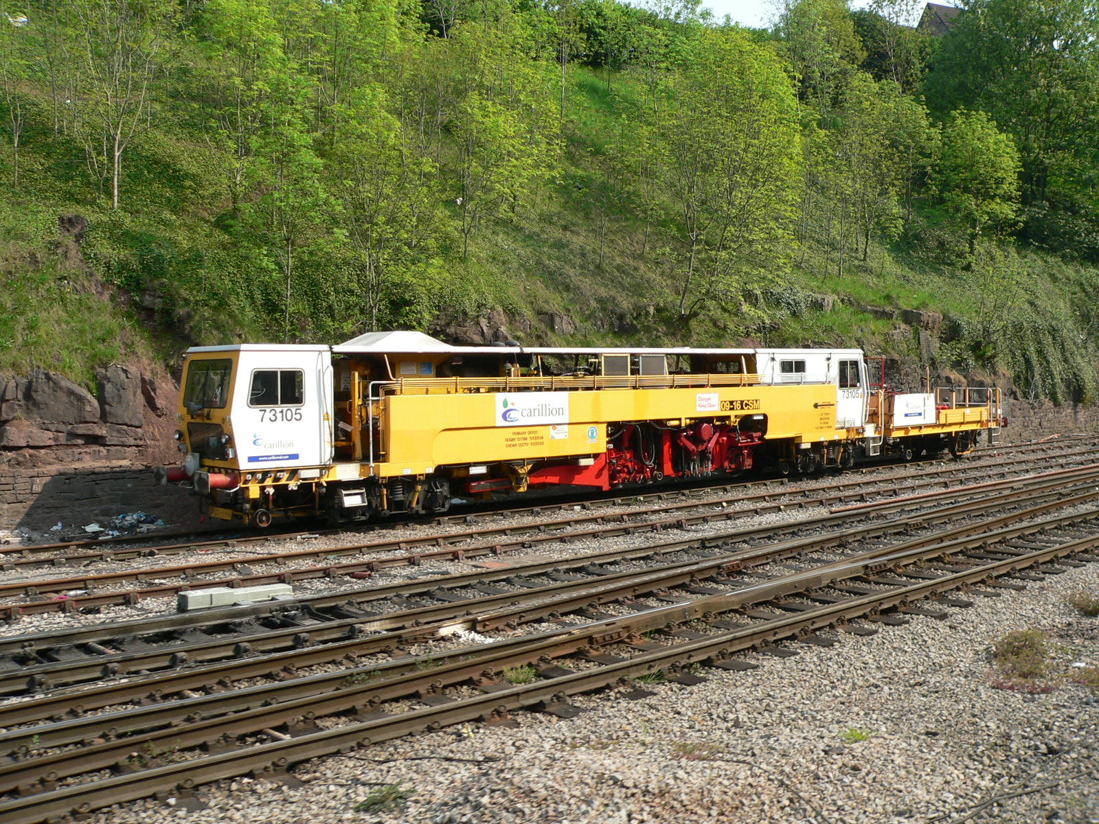 Carillion-operated Plasser & Theurer 09-32 CSM Ballast Tamper / Liner 73105 stabled west of Newport railway station, viewed from a passing eastbound First Great Western HST.